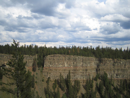 More Chilcotin flood basalts and trees in Chasm Provincial Park